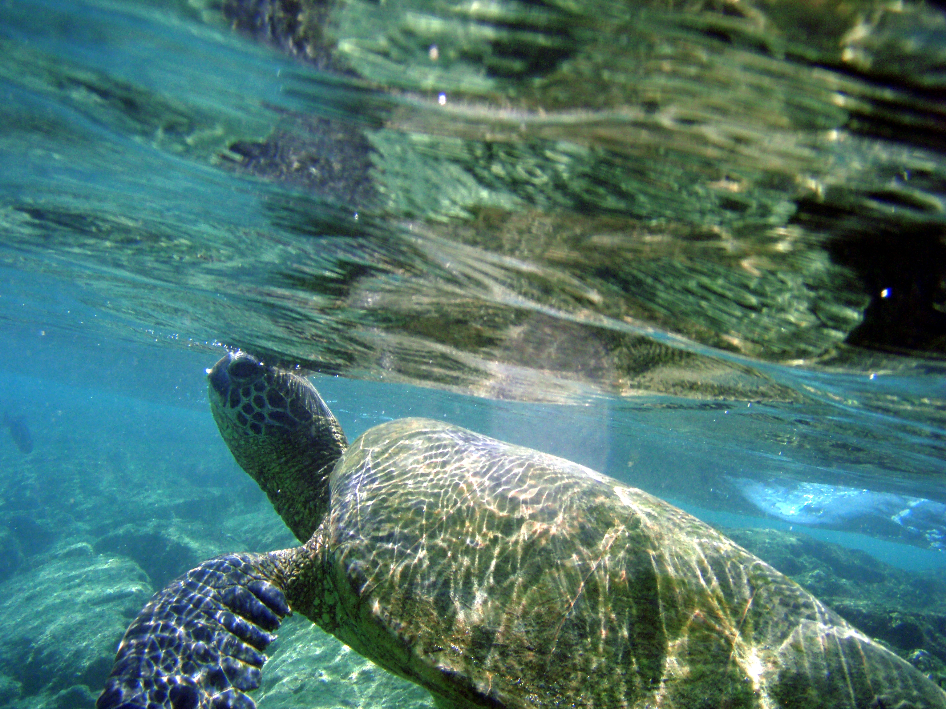 Green turtle is about to break the surface for air. (Turtles breath air).The picture was taken in Kona, Hawaii, USA.